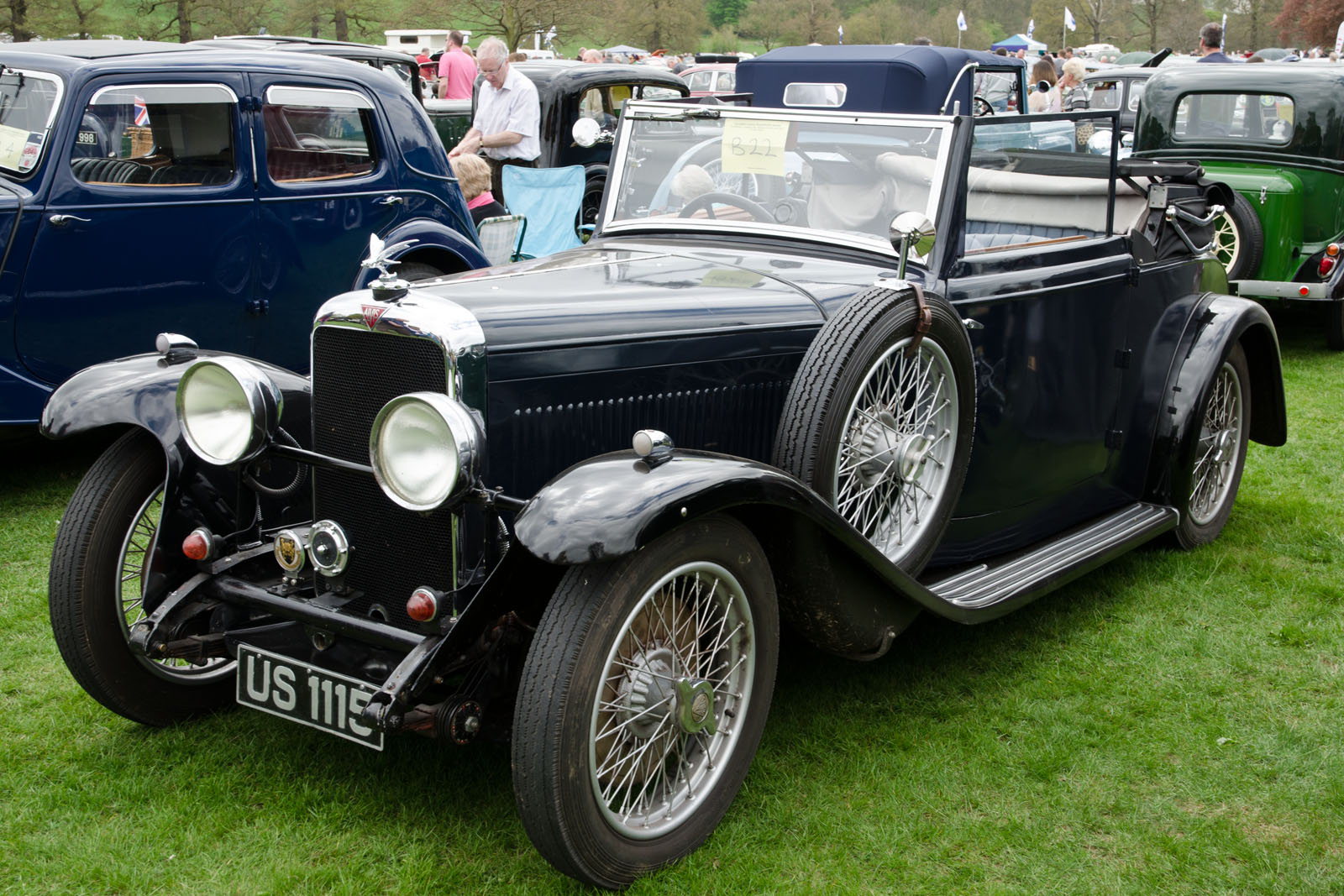 Alvis Firefly 12Catton Hall Classic Car Show 05/05/2013(DVLA) First registered 26 April 1933, 1479cc